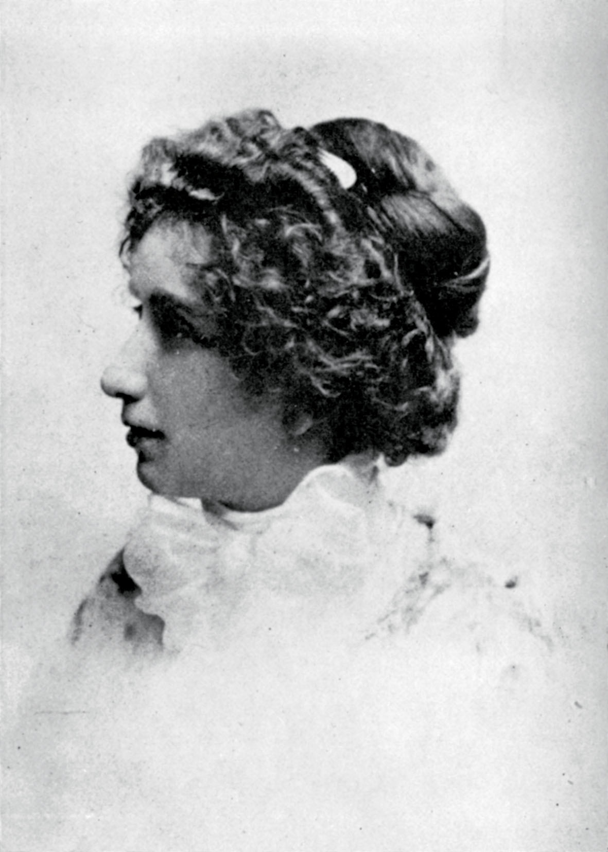 Růžena Svobodová